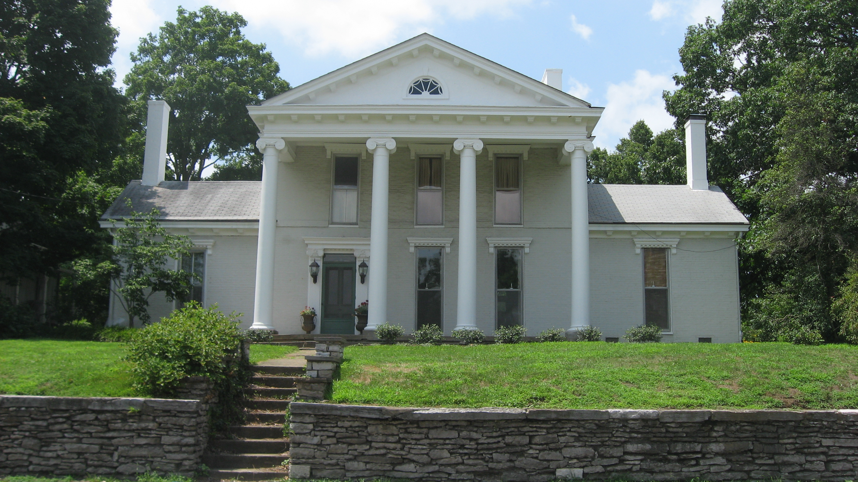 Front of the McConnell-Woodson-Philips House, located at 303 S. Main Street (U.S. Route 27) in Nicholasville, Kentucky, United States. Built in 1812, it is listed on the National Register of Historic Places.